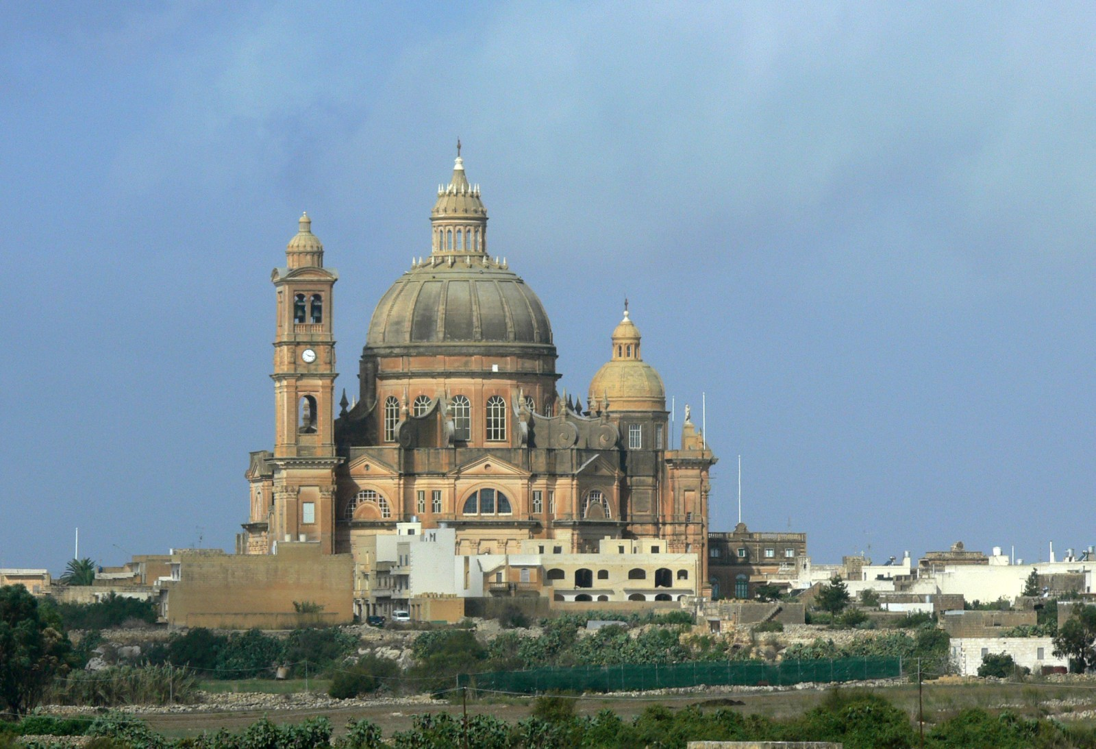 La Rotunda St. John The Baptist in Xewkija - Gozo island, Malta.